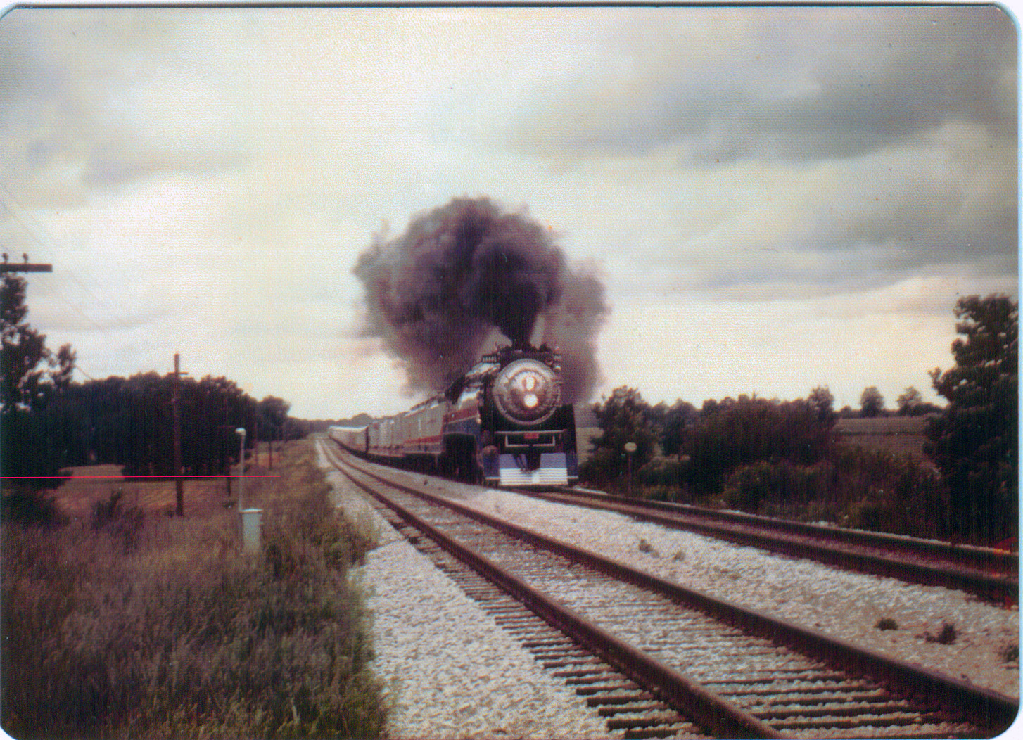 Another photo of The American Freedom Train 4449 with Ira Leamon Wilson as engineer in Georgia.